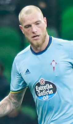 John Guidetti with Celta Vigo in an UEFA Europa League game against FC Krasnodar.